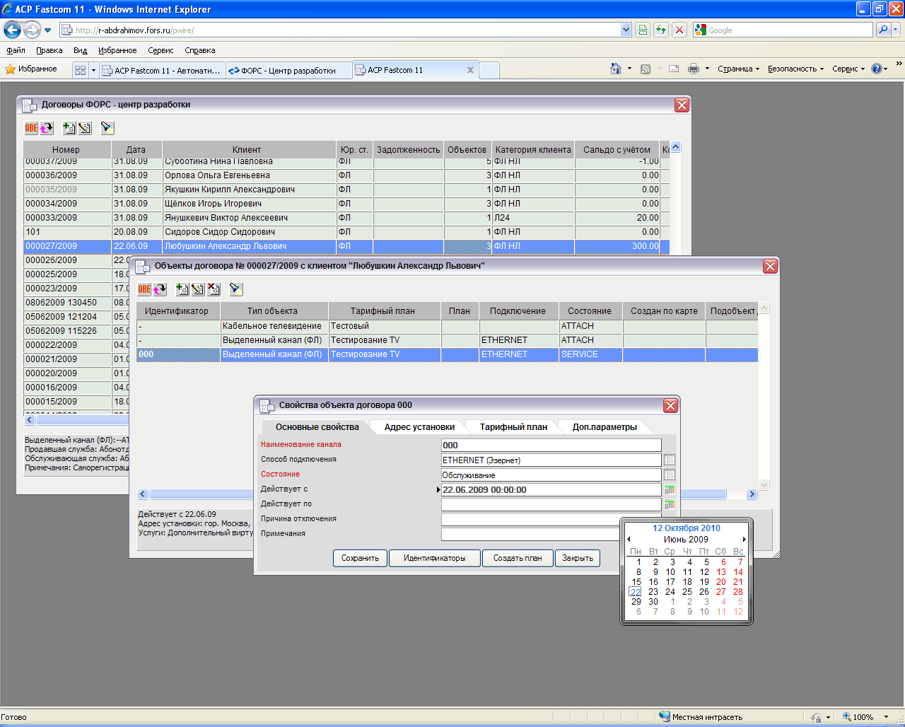 Objects of Contract. Fastcom billing system